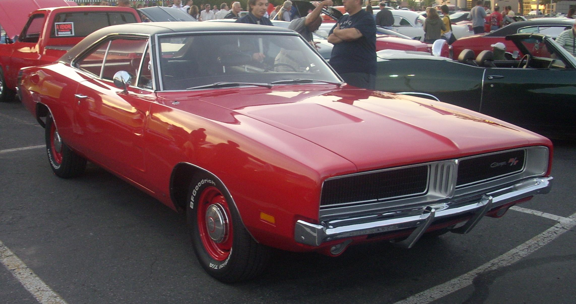 Dodge Charger photographed in Montreal, Quebec, Canada at Gibeau Orange Julep.